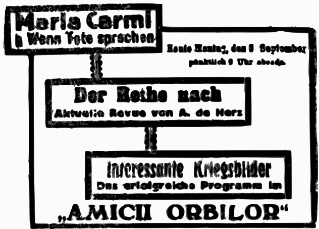 Theatrical advertisement for a variety show, performed under the German occupation of Bucharest by Amicii Orbilor charity. The main attraction is Wenn Tote sprechen, a German film starring Maria Carmi (Norina Matchabelli); this is followed by a revue show written by, and starring, A. de Herz.